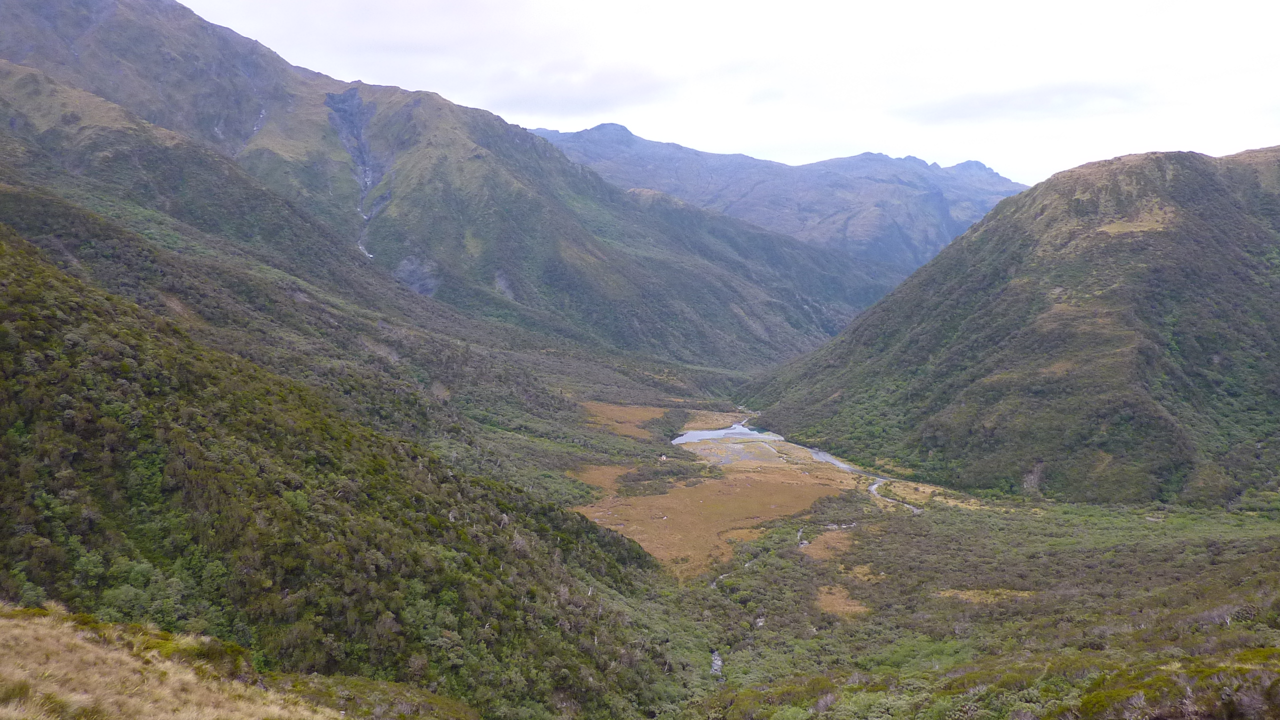 Toaroha River Valley, Westland, New Zealand / Aotearoa from near the Toaroha Saddle